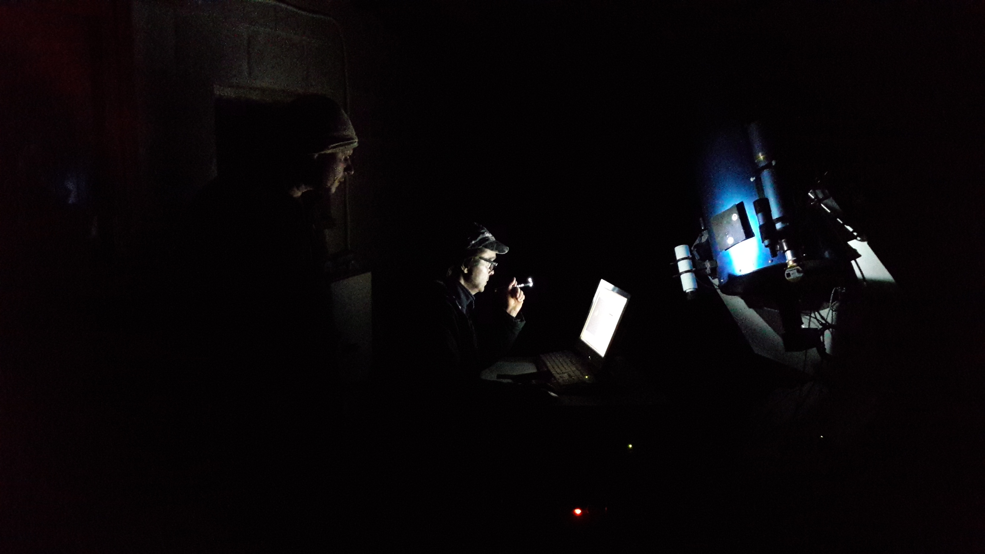 Paolo Calcidese (left) and Albino Carbognani (right) working with a 400 mm f/8 Ritchey-Chrétien reflector telescope in the Scientific Platform of the Astronomical Observatory of the Autonomous Region of the Aosta Valley, Italy. For the contrast between dark and light, the few spots of colour, the pose of the two researchers, the ensemble can vaguely recall the art works of the great dutch painter Jan Veermer.